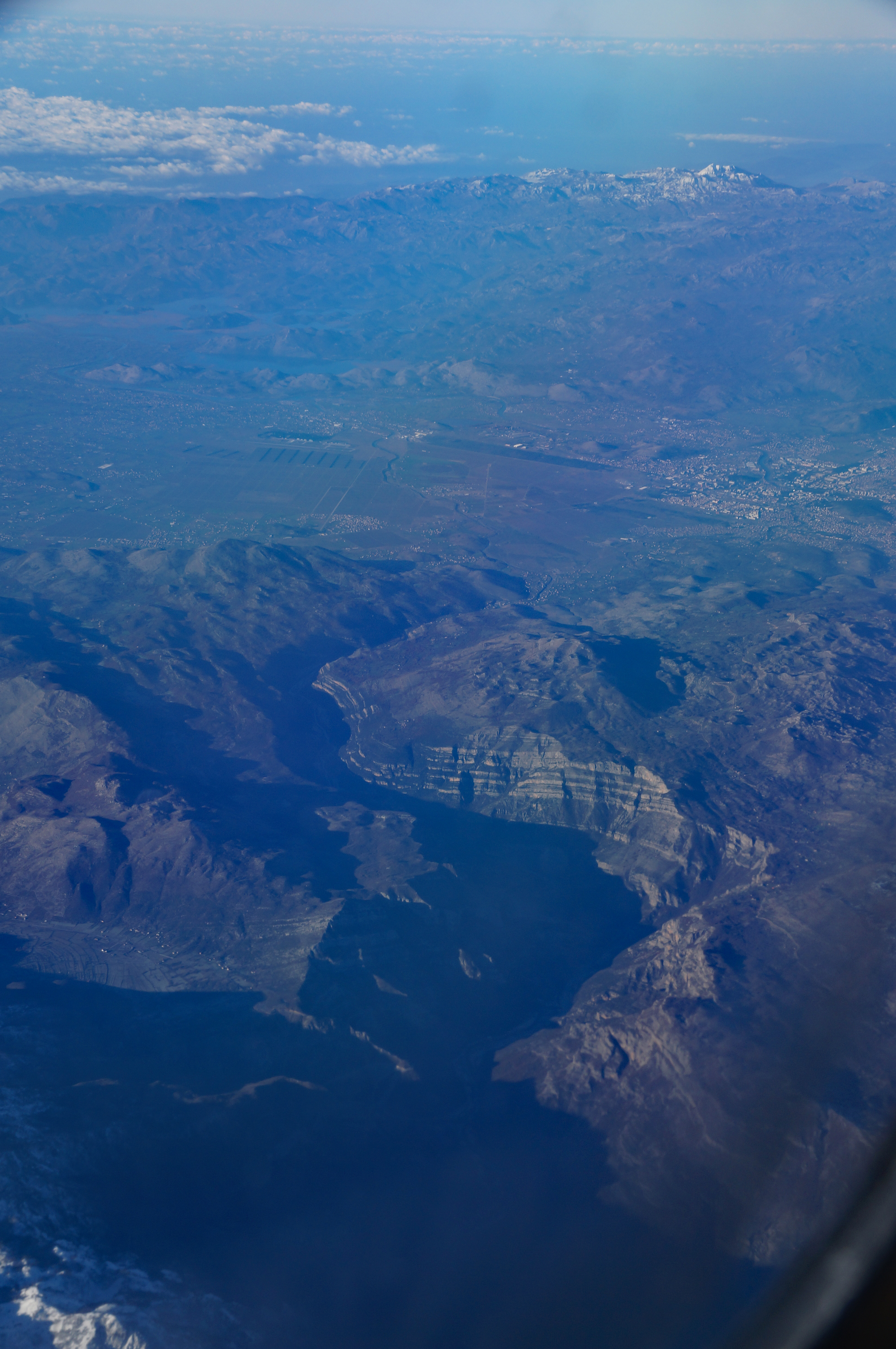 Cem valley, Podgorica and Montenegrin mountains